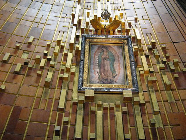 Original image of Our Lady of Guadalupe